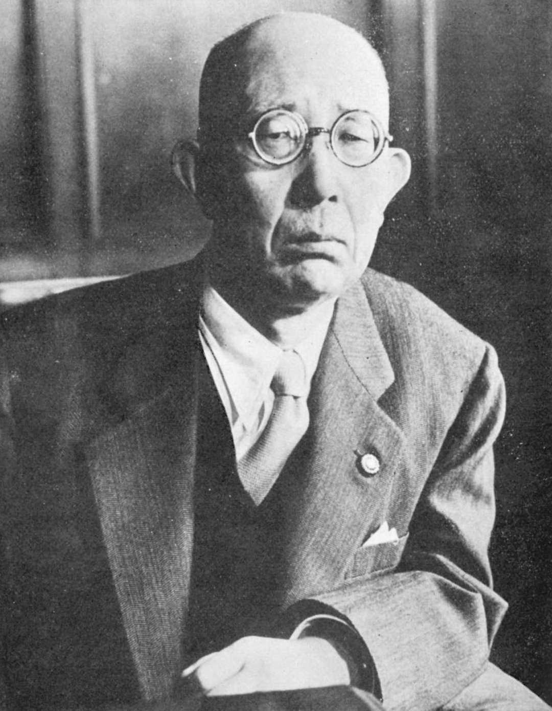 Yuzo Yamamoto